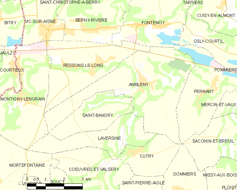 Map of French commune: Ambleny Map commune FR insee code 02011.png